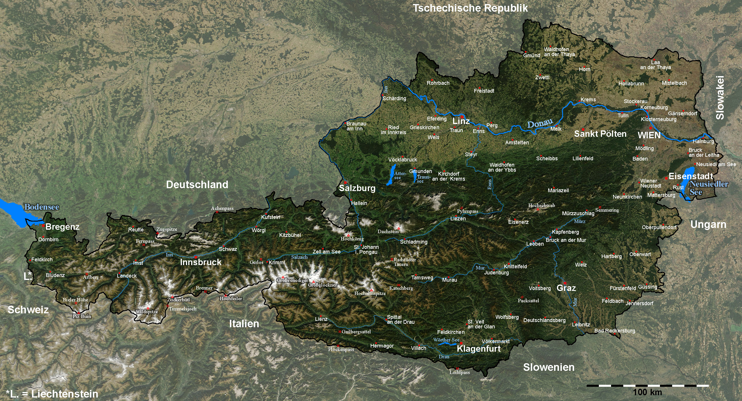 Satellite image of Austria with provincial capitals and other annotations